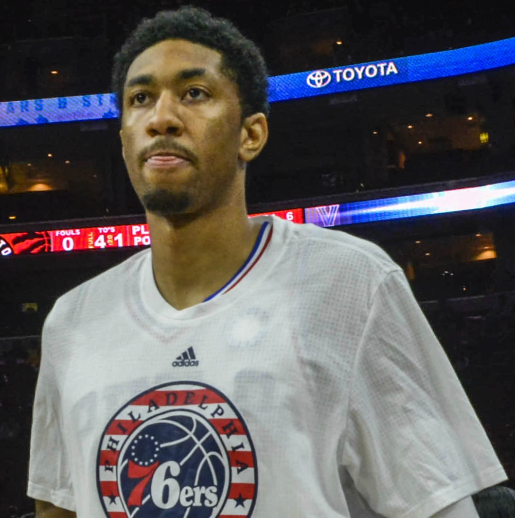 PHILADELPHIA (Nov. 11, 2015) Sailors from Navy Recruiting District Philadelphia greet players at halftime during a Veteran's Day game between the Philadelphia 76ers and the Toronto Raptors at Wells Fargo Center.